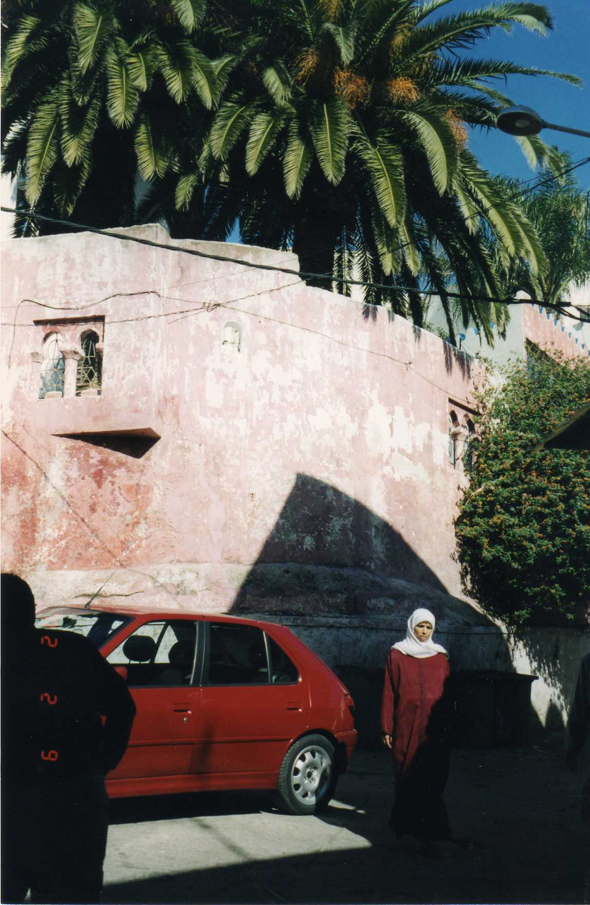 Summary Médina à Tanger Old city (or medina) in Tangiers Picture from my private archive, taken in 2002